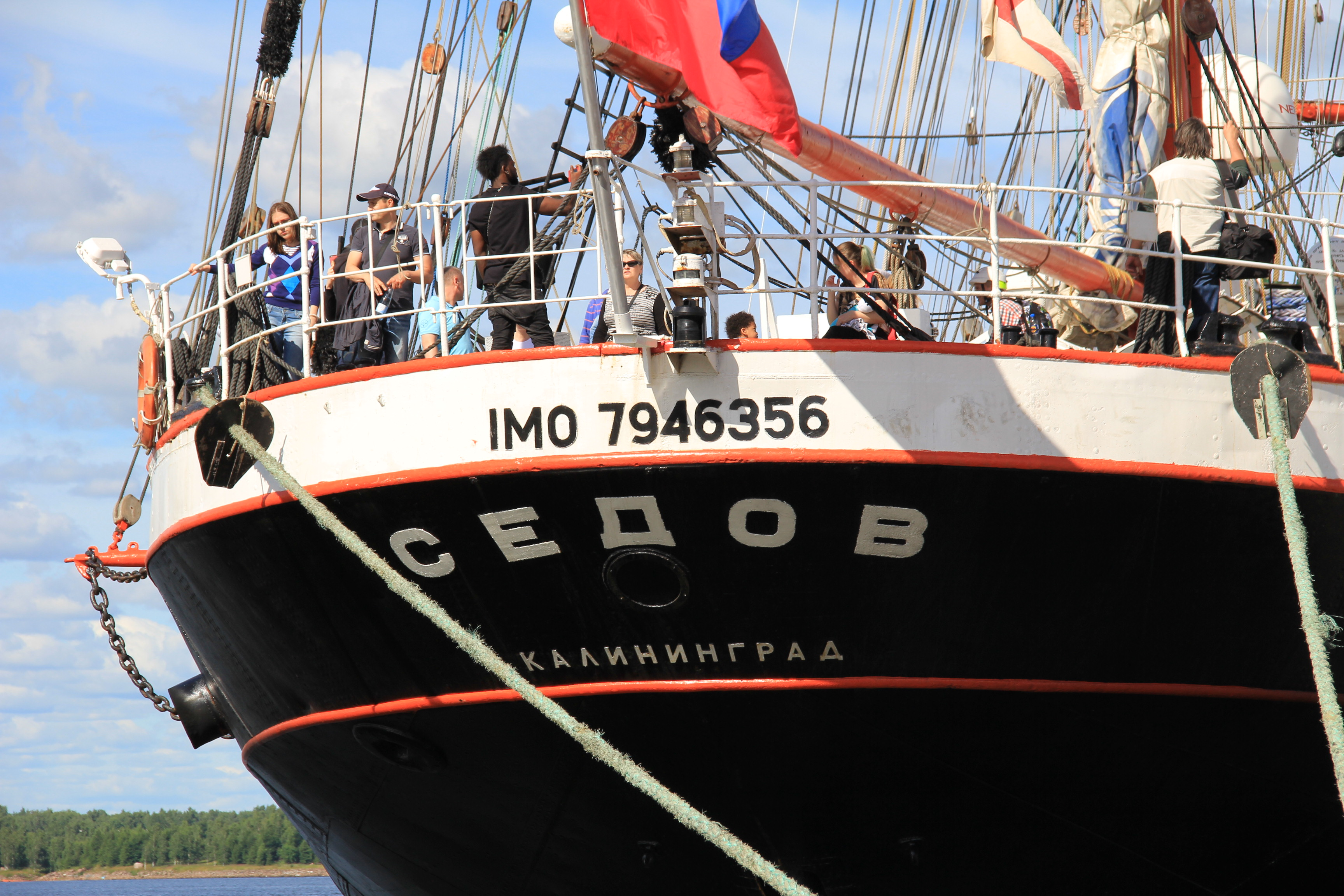 Sedov at the Kantasatama Harbour in Kotka, Finland, during the Tall Ships’ Races 2017.